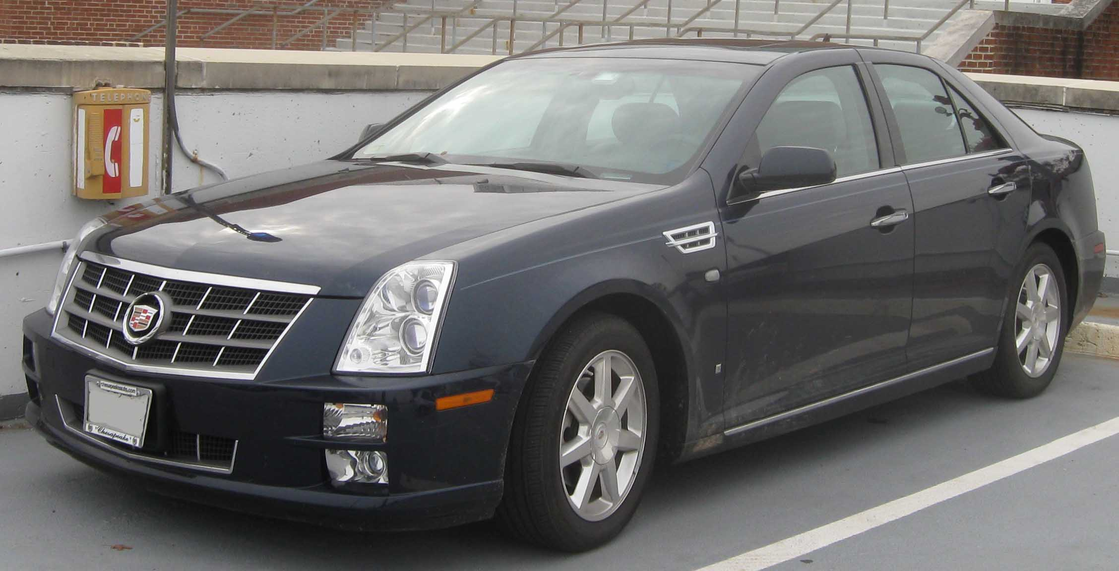 2008-2009 Cadillac STS photographed in College Park, Maryland, USA.